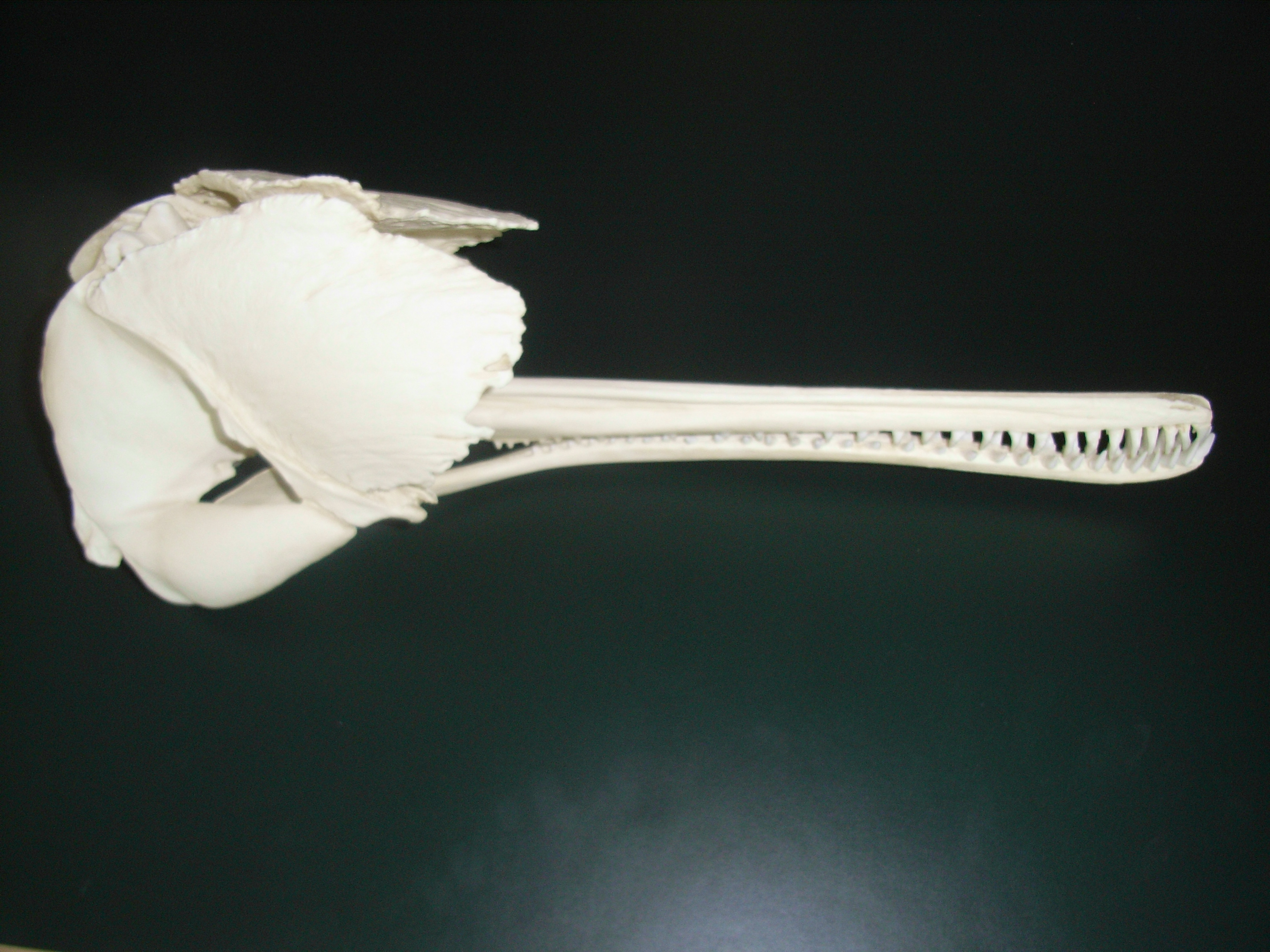 Platanista gangetica Skull (Very accurate replica)